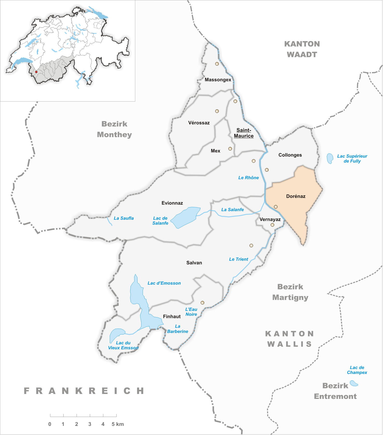 Municipality Dorénaz